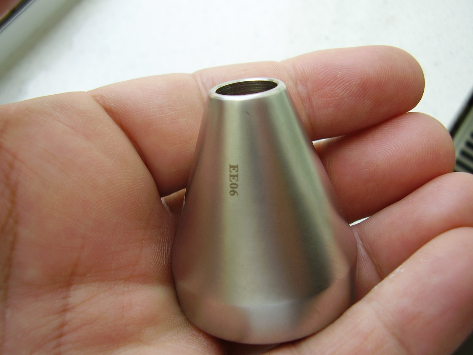 Syringe Recapping Stand - massiv metal